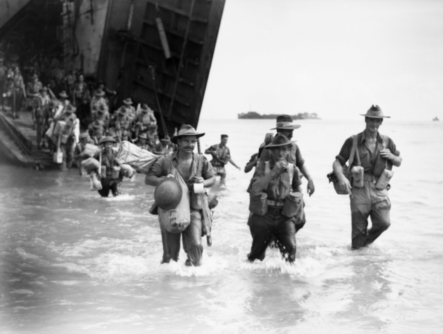 MEMBERS OF 24 INFANTRY BRIGADE MOVING ASHORE FROM THE LANDING SHIP, TANK (LST) 560, DURING THE OBOE 6 OPERATION LANDINGS ON THE ISLAND.